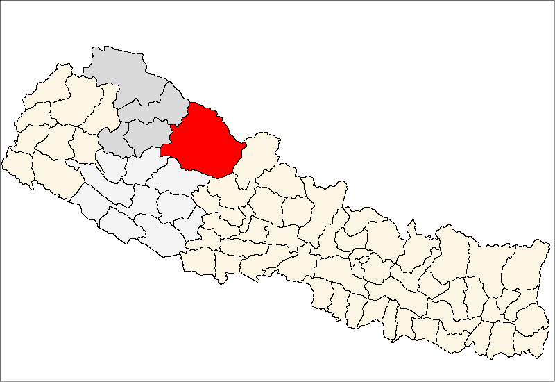 FrenchCarte de localisation dudistrict de Dolpa(wp-FR),au Népal (wp-FR).EnglishLocation map ofDolpa District(wp-EN),in Nepal (wp-EN).